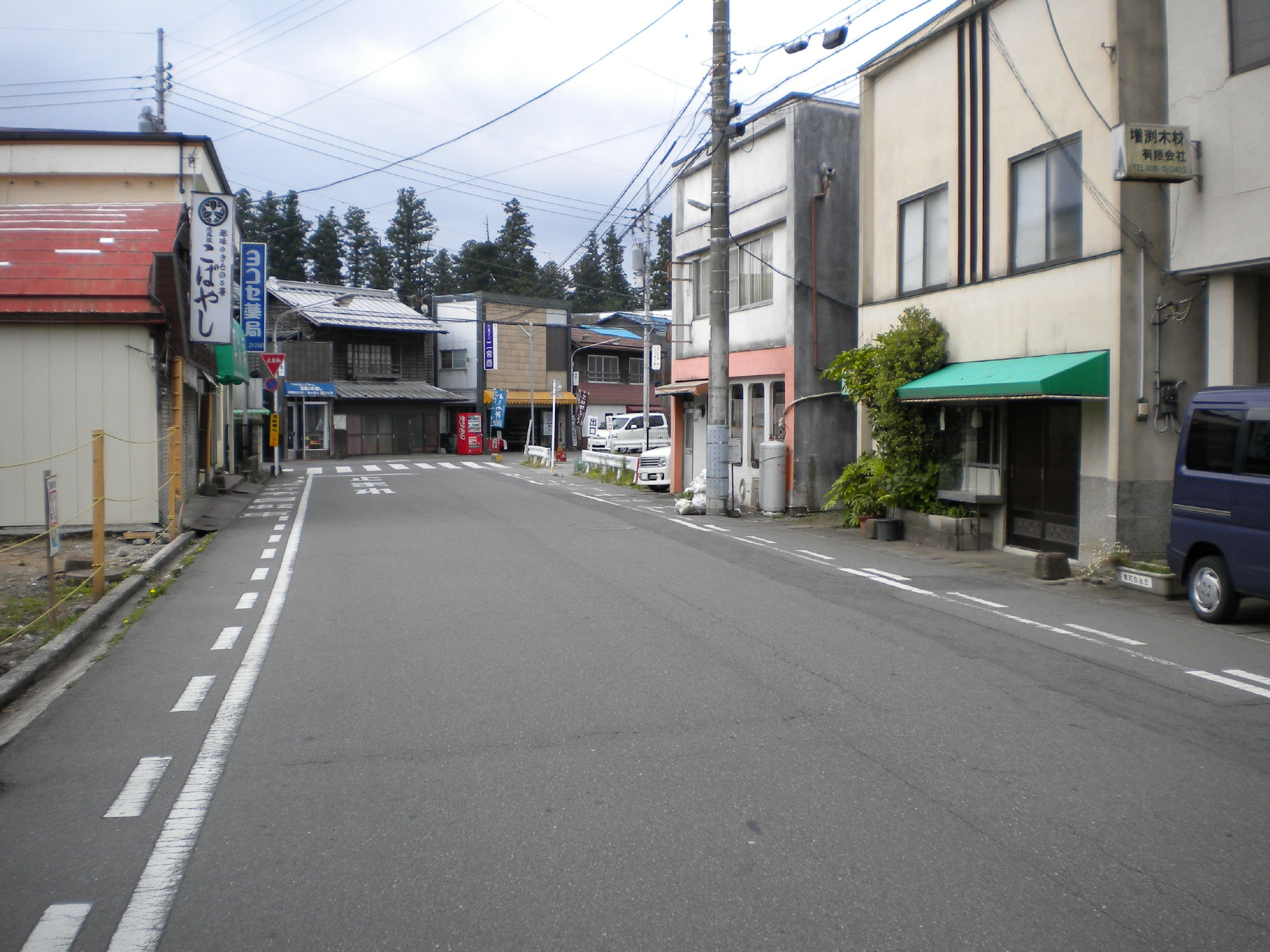 Tochigi prefectural road No.118 on Nikko city